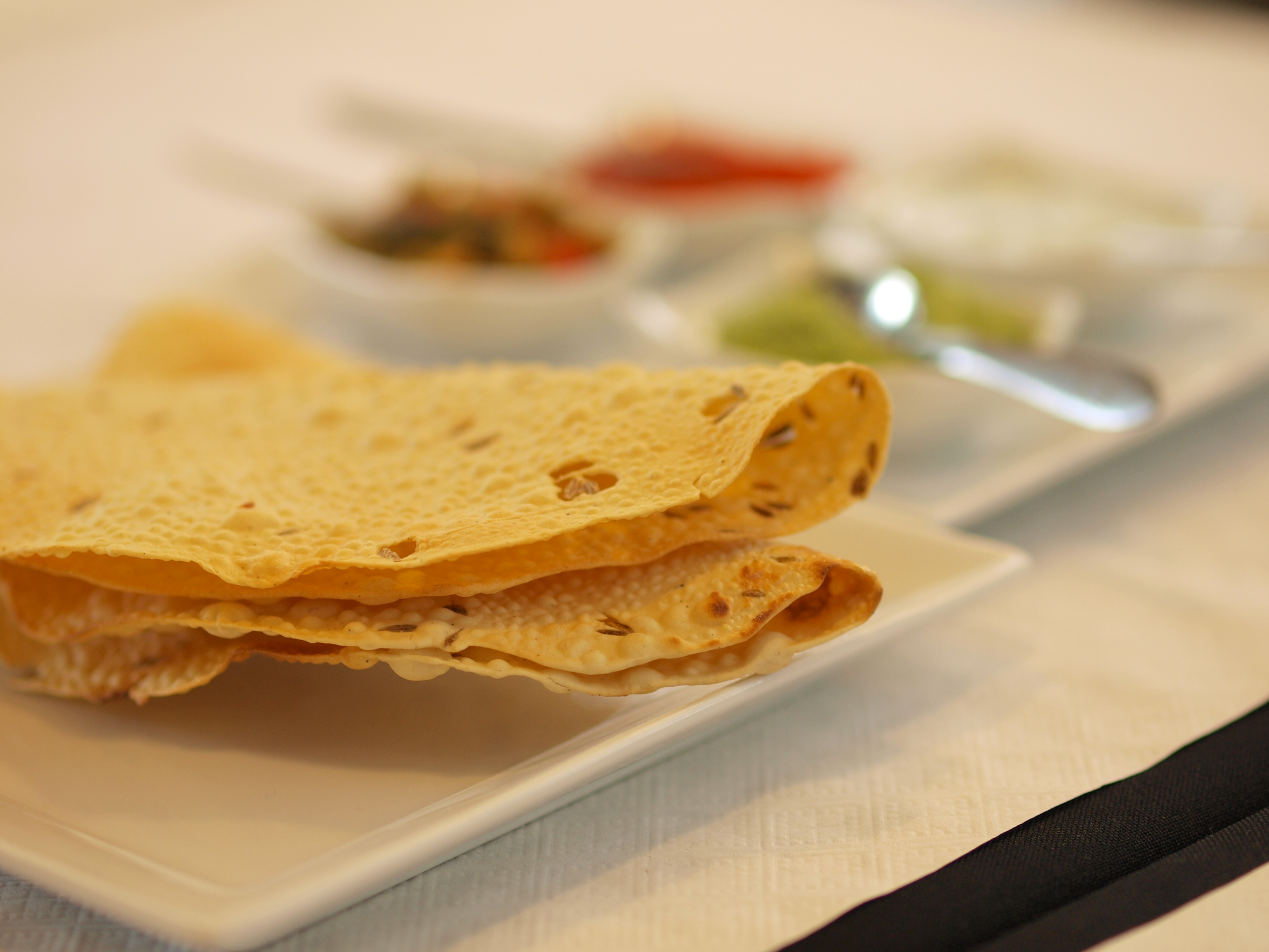 Papadums (paparis, in portuguese) photographed in a restaurant serving food from Mozambique in Lisbon, Portugal.